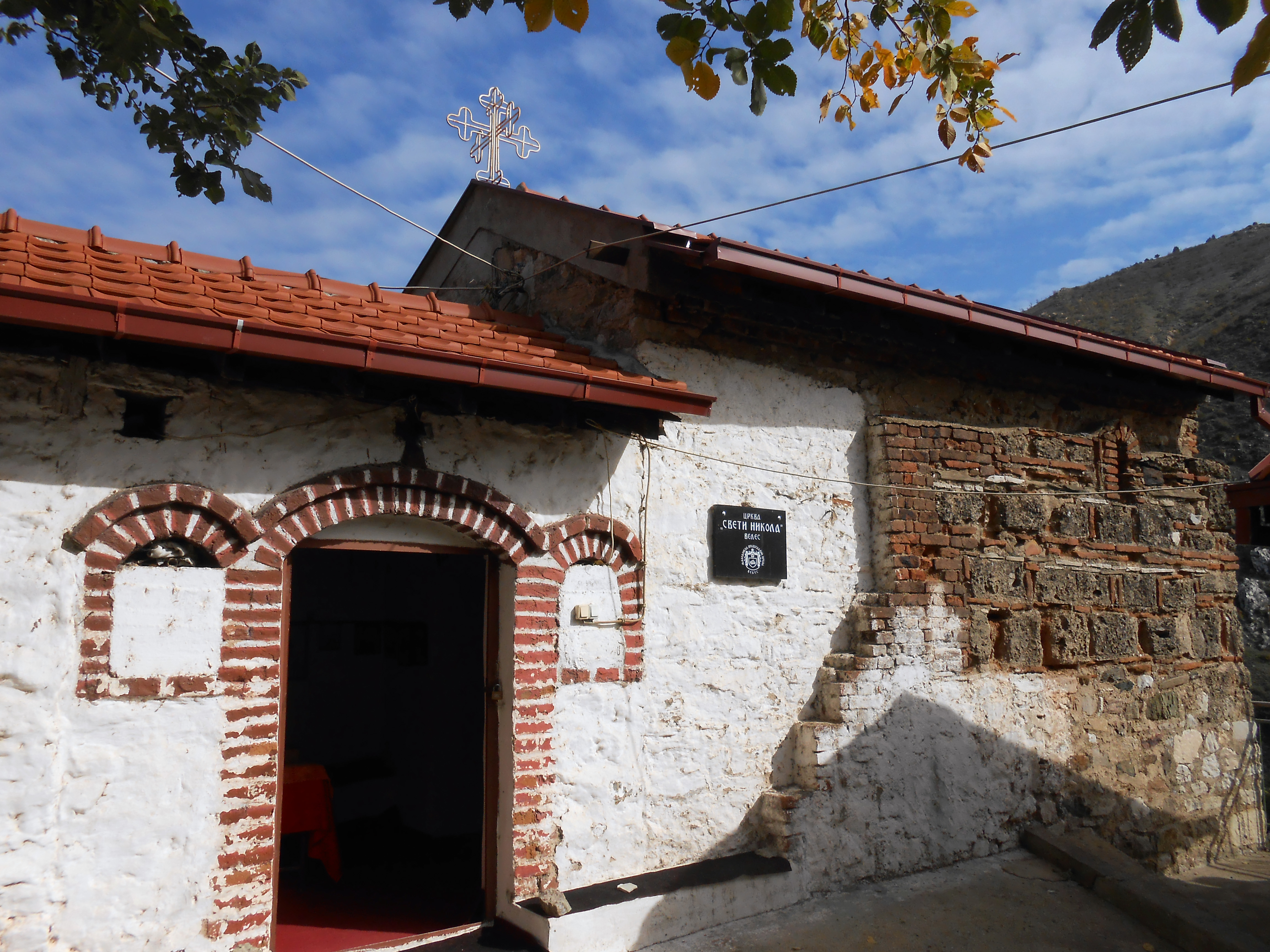 Црква “Св.Никола”. Велес, Македонија